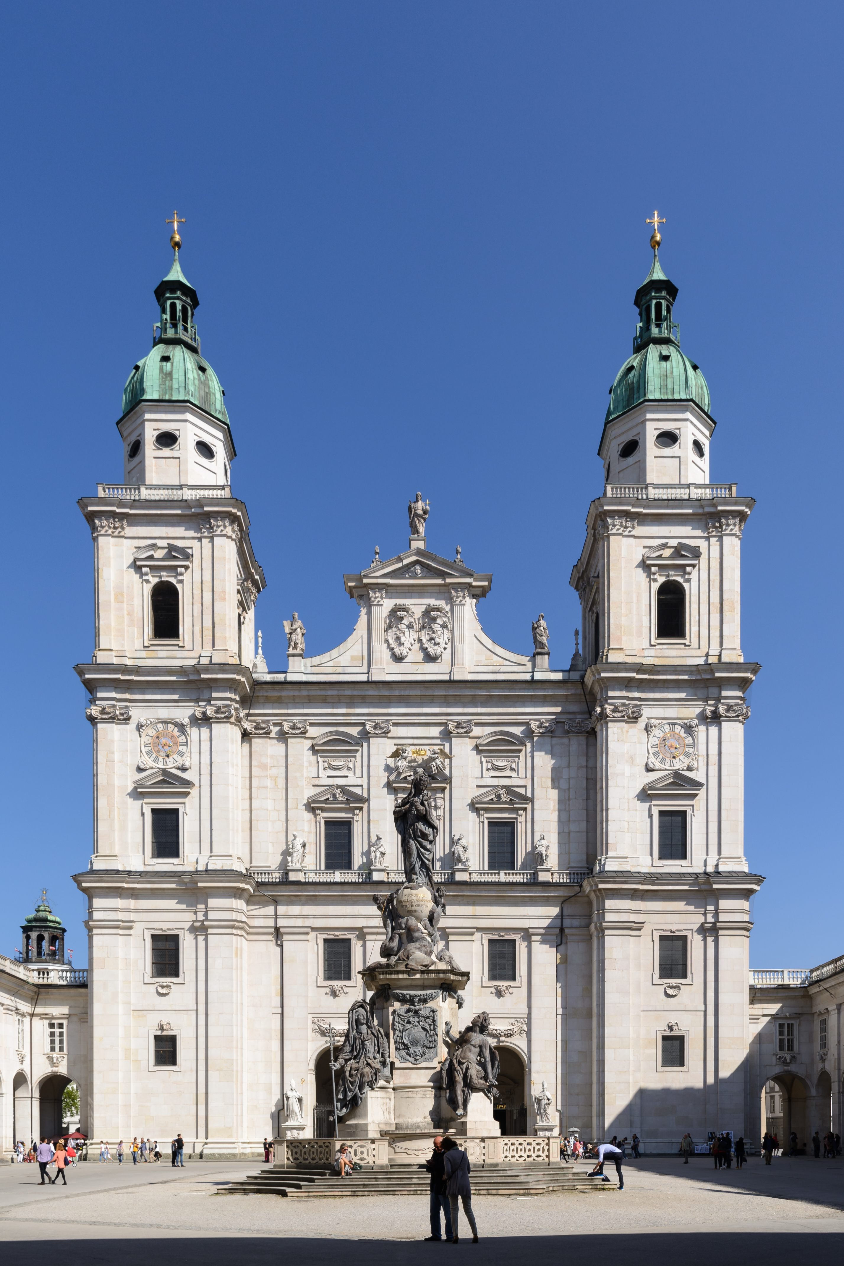 Façade of Salzburg Cathedral with Marian column, federal state of Salzburg, Austria